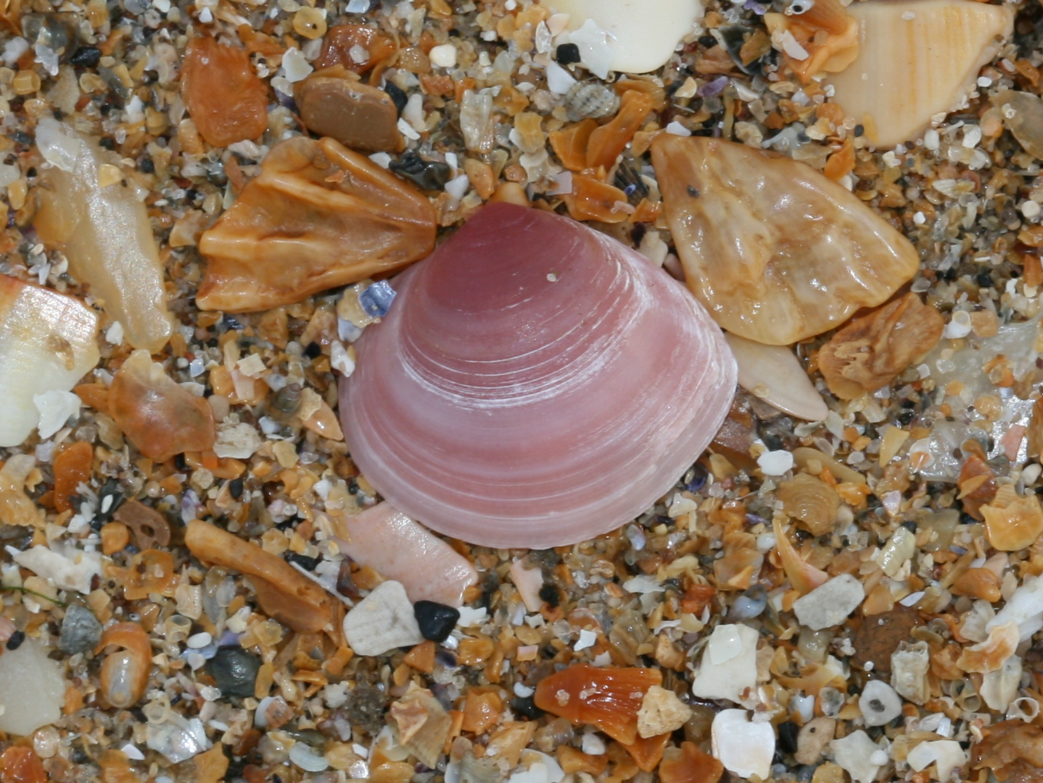 Gullane, East Lothian, Scotland.